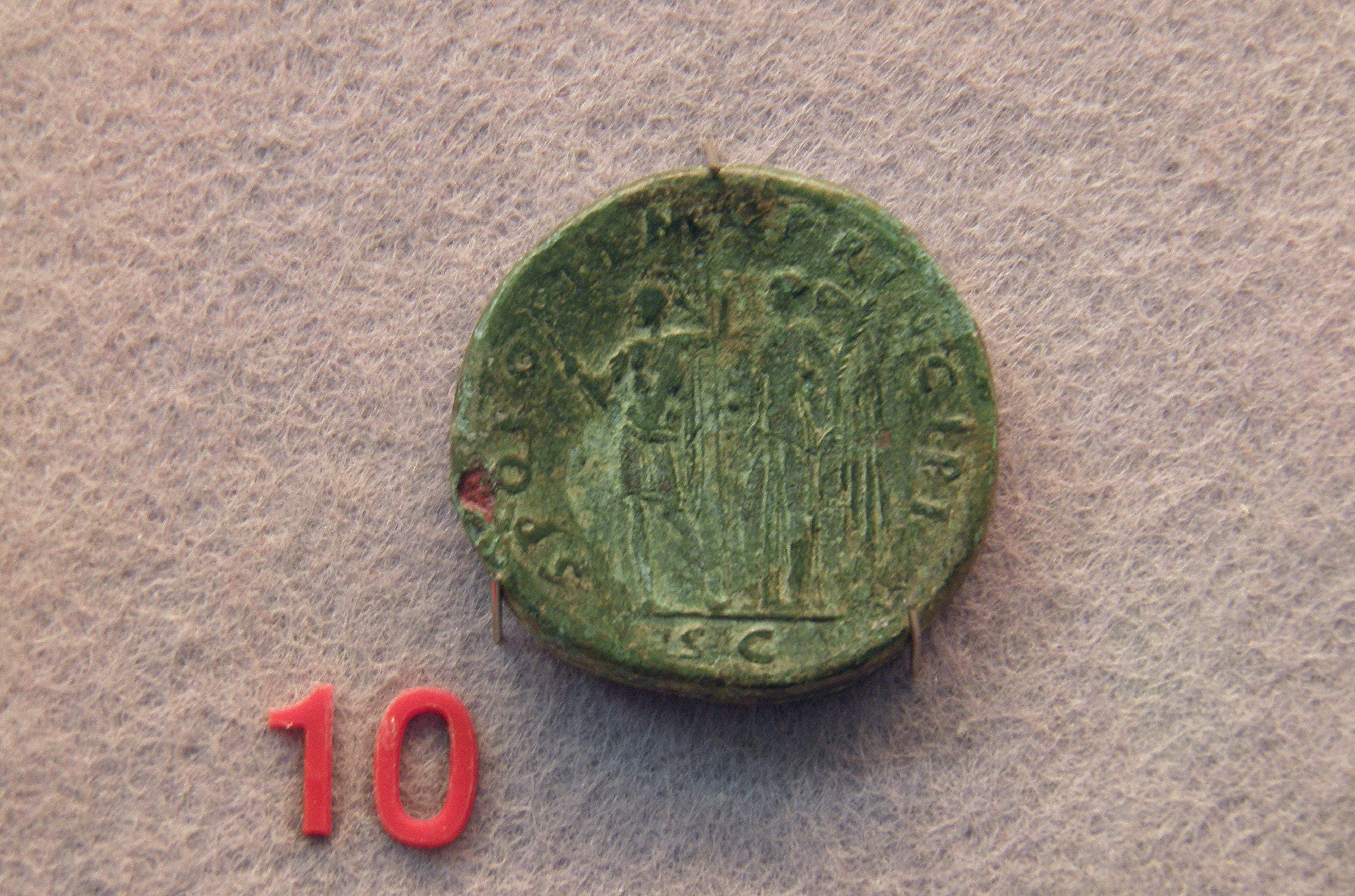 Sestertius of Trajan (reverse), it reads SPQR OPTIMI PRINCIPI, "from the Senate and People of Rome, to the best of all emperors", from Deva Victrix (Chester, UK), The Grosvenor Museum